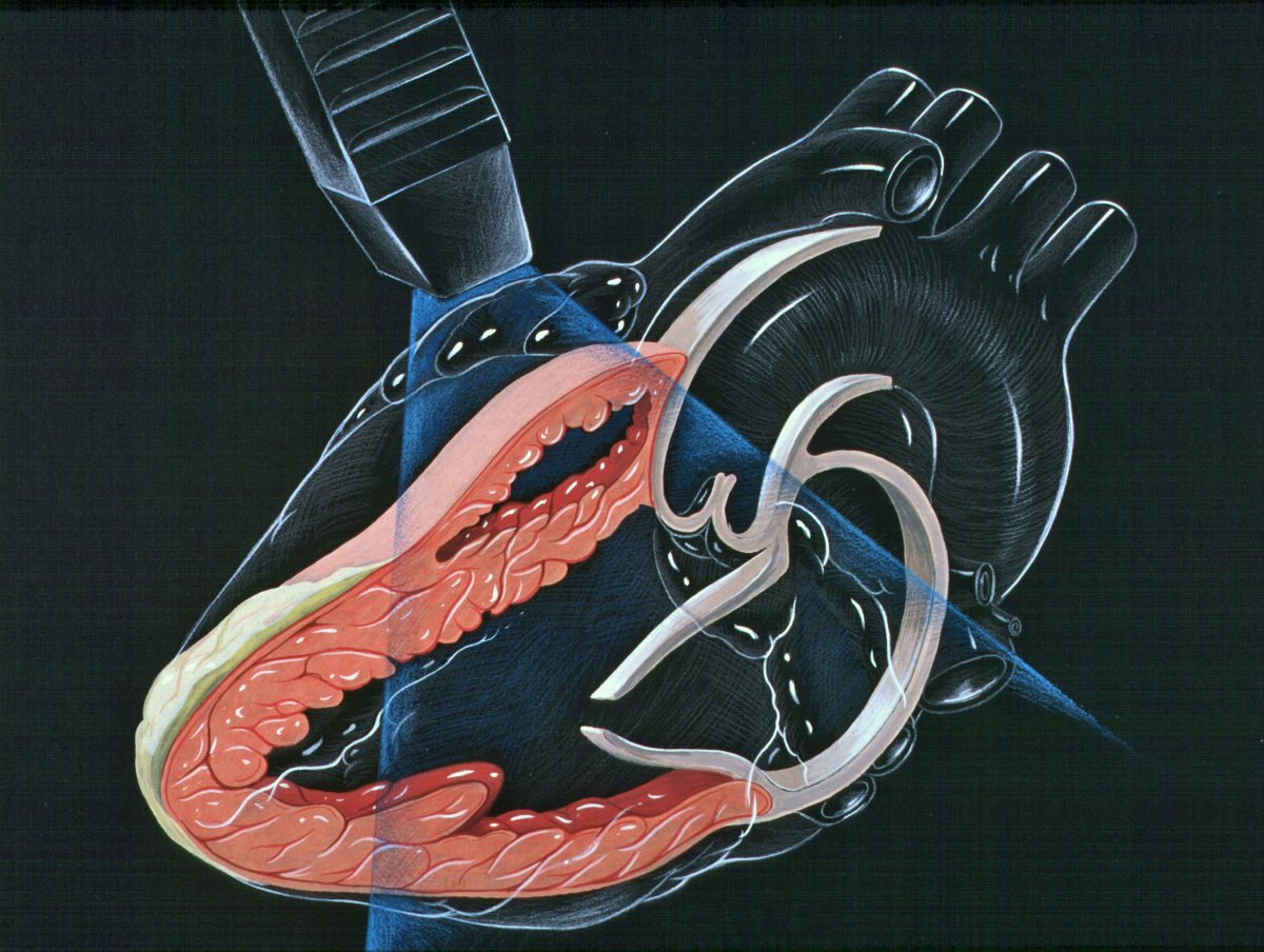 Heart normal LPLA left parasternal long axis echocardiography view